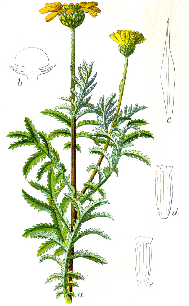 Anthemis tinctoria L., syn. Chamaemelum tinctorium (L.) Schreb. Original Caption Färber-Kamille, Chamaemelum tinctorium